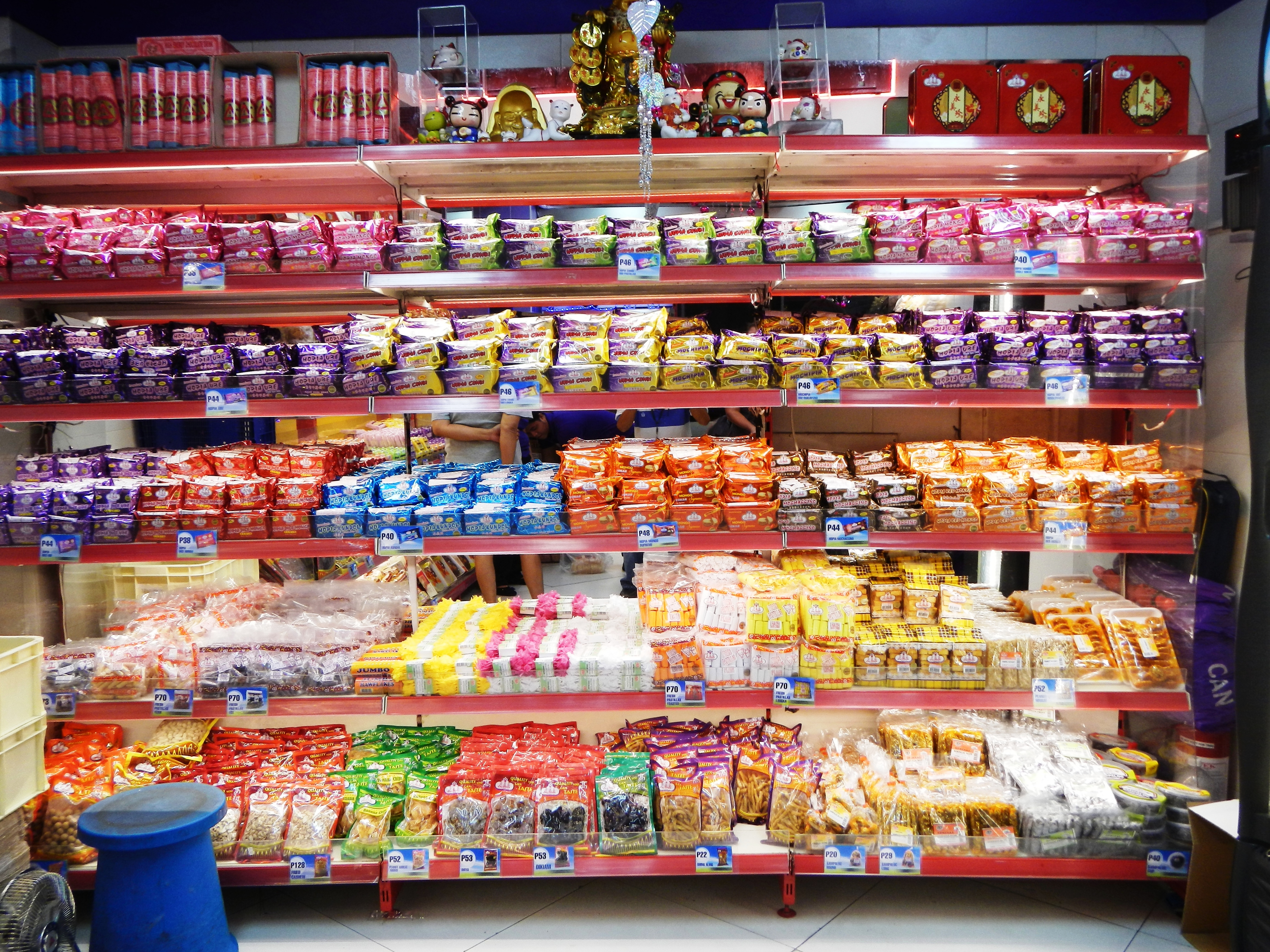 Eng Bee Tin Chinese Deli Manila Chinatown at night featuring its subsidiaries Mr. Ube resto and deli and Cafe Mezanine - (Bakpia mung-bean bakpia Hopia in Filipino - purple yam Dioscorea alata Hopia Ube custard hopia Philippines Pastry, sweet roll purple-yam hopia was created in the 1980s by Gerry Chua of Eng Bee Tin Chinese Deli).